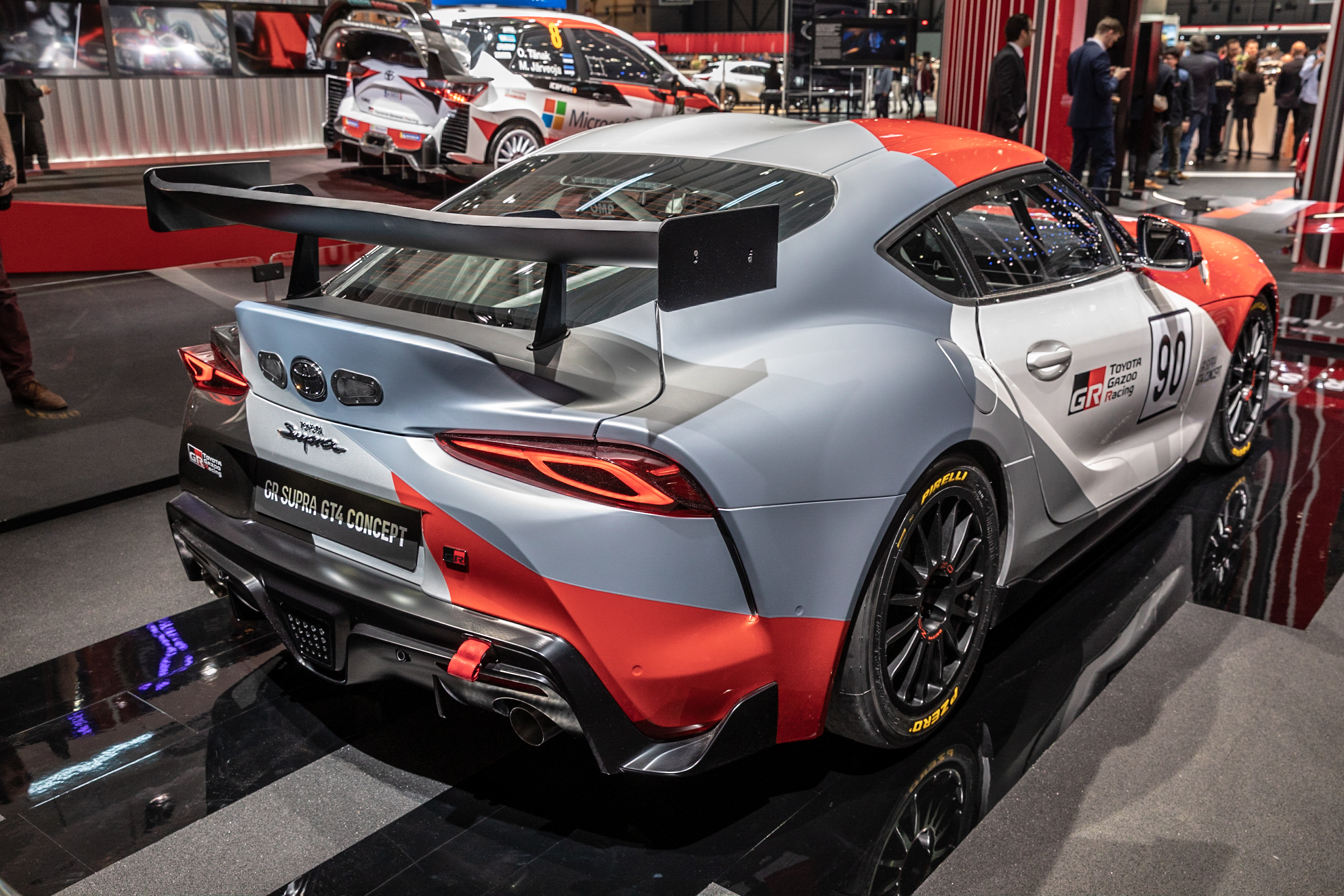 Geneva International Motor Show 2019, Le Grand-Saconnex